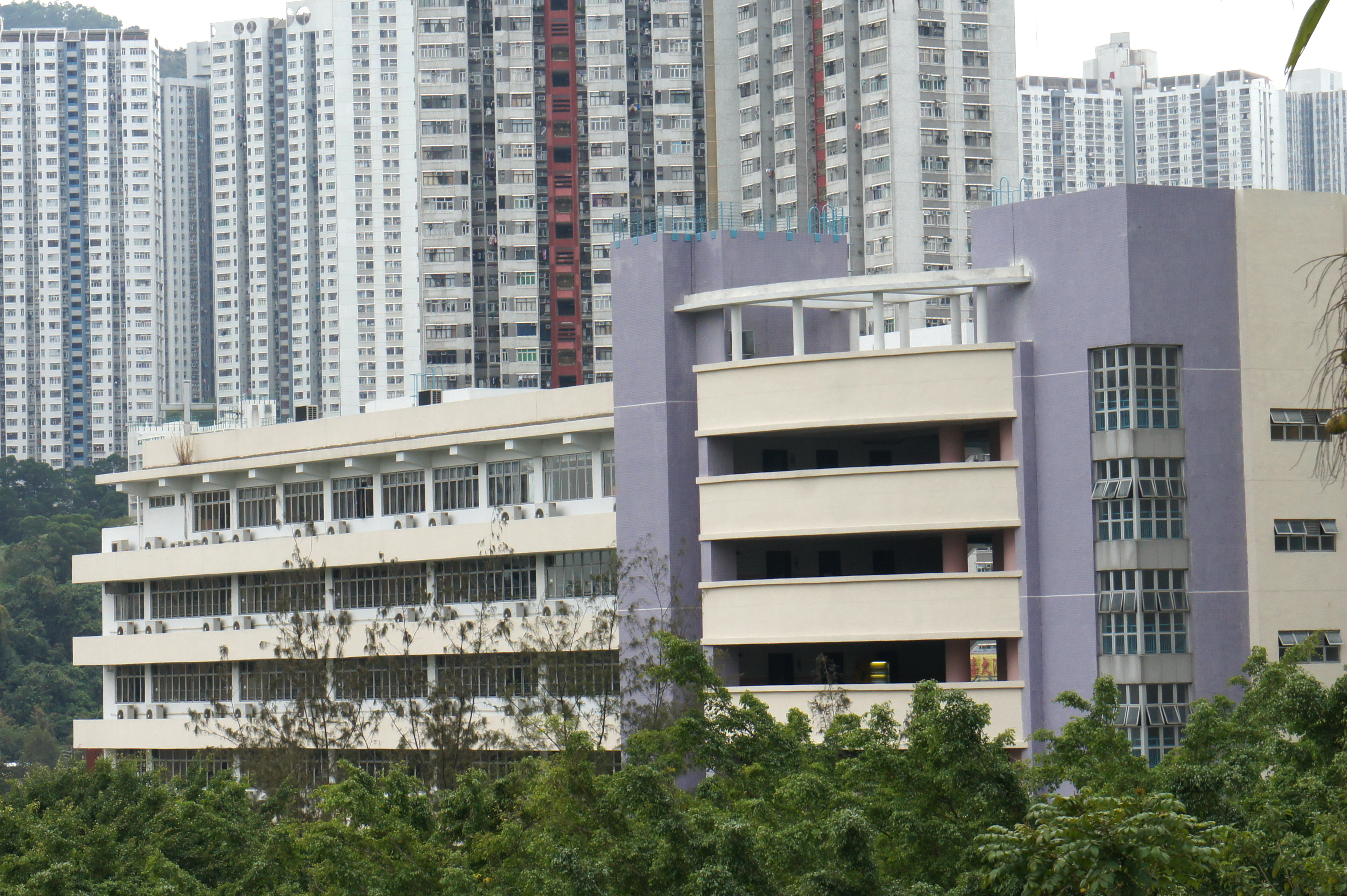 Sheng Kung Hui (S.K.H.) Tsing Yi Estate Ho Chak Wan Primary School (Hong Kong)